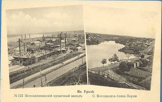 Open Letter (Carte Postale) with view of Russian city Perm (early XX century)